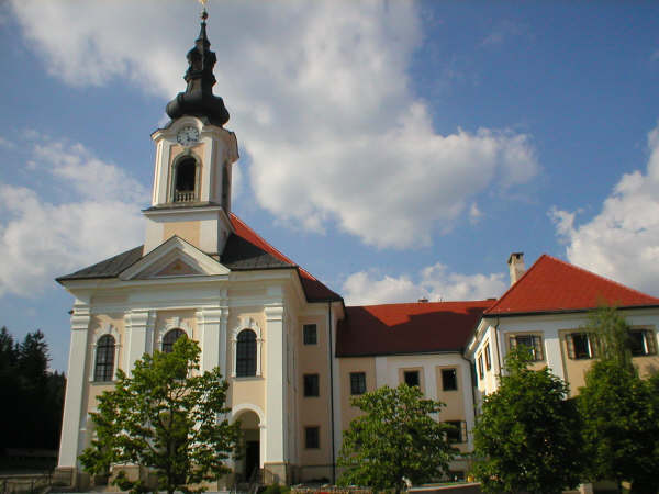 The Church of Adergas, former a convent